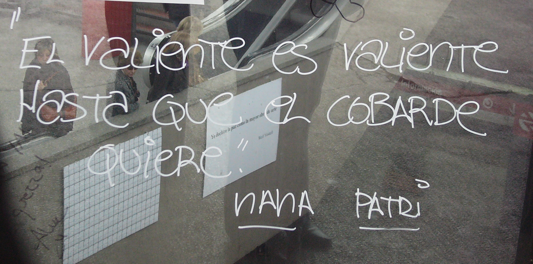 Description: Anonimous after the 11 March 2004 Madrid attacs City: Madrid Country : Spain Photographer: © Manuel González Olaechea y Franco Shot date : March 17th , 2004